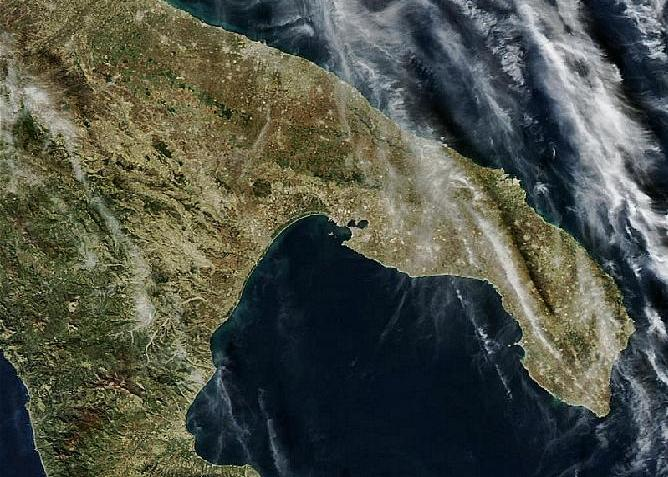 Taranto gulf, Italy, from sat